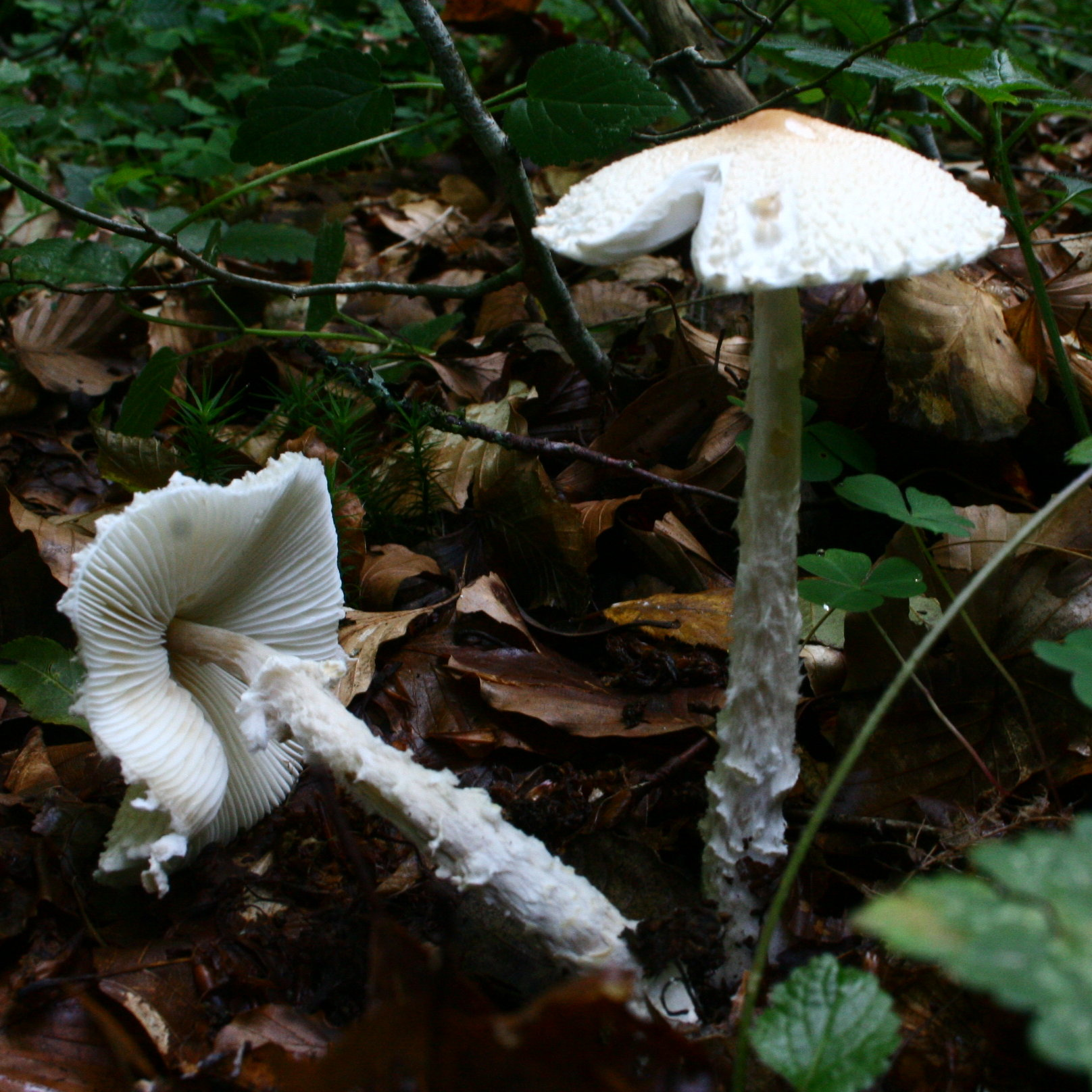 Lepiota clypeolaria in a forest near Château-Chinon, France.